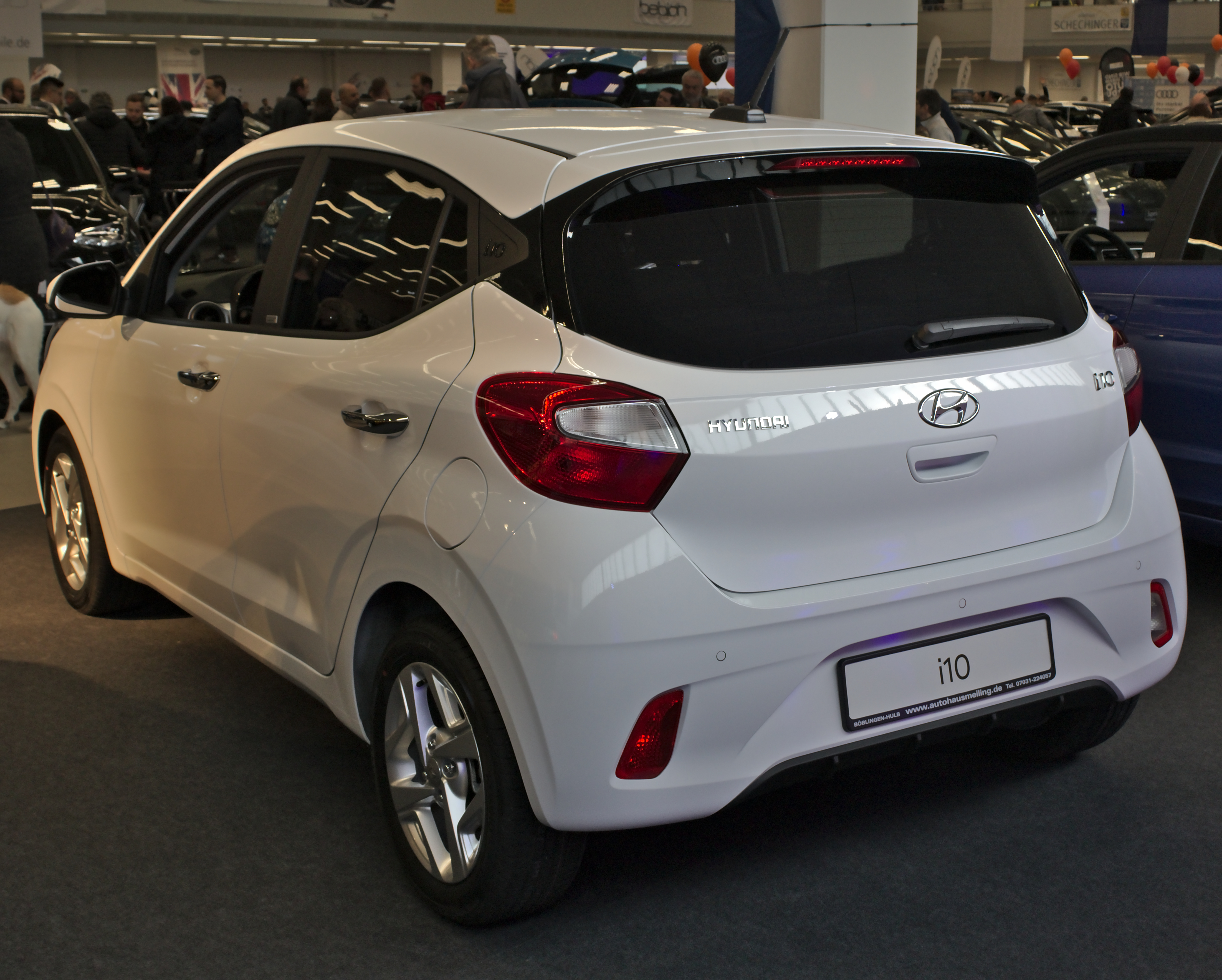 Hyundai_i10_(LA)_Sindelfingen_2020